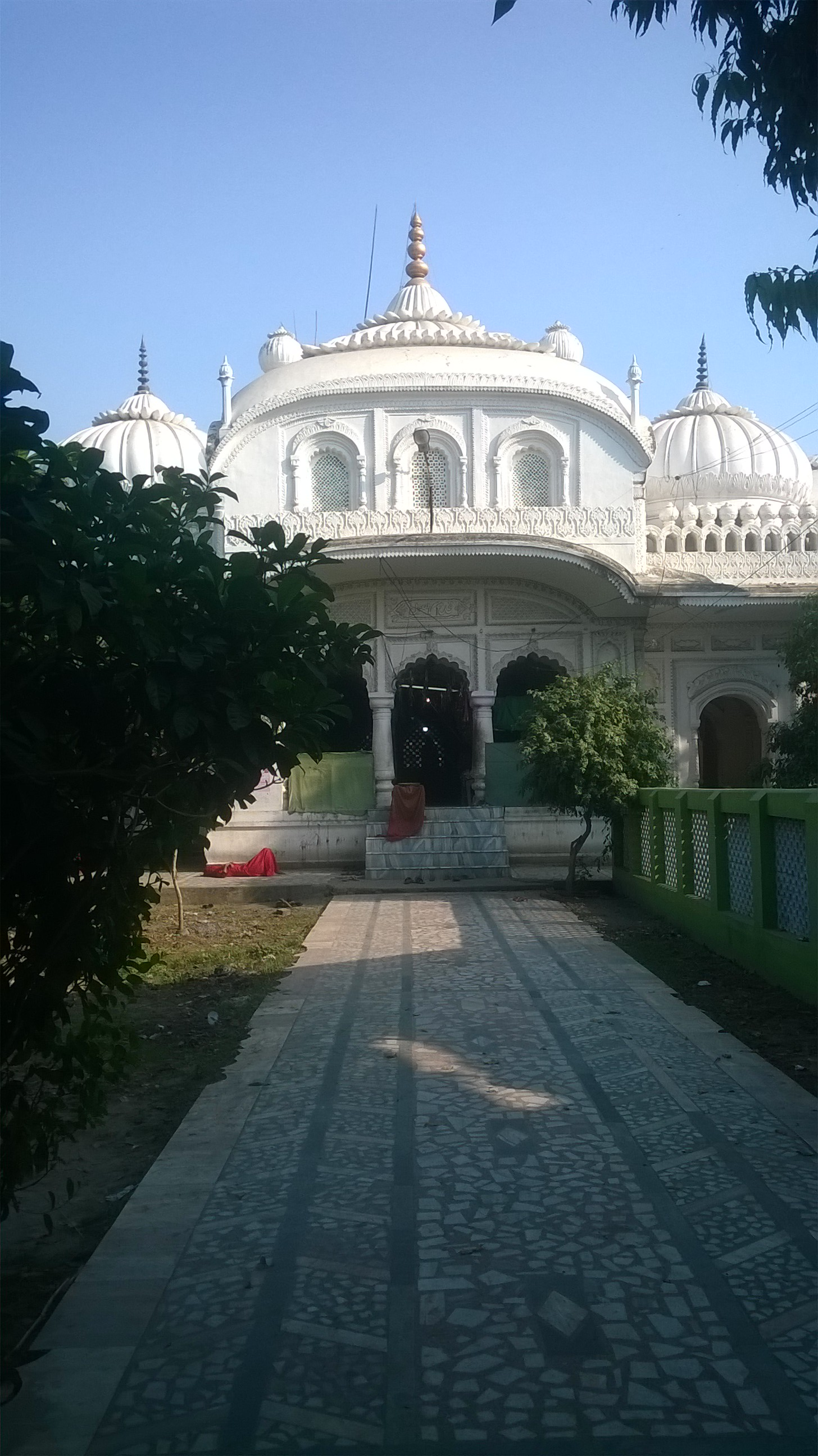 Qadam Rasool Bahraich Build by Sultan Nasiruddin Mahmood's governor of Bahraich in time of Mamluk Sultanate (Slave dynasty) .